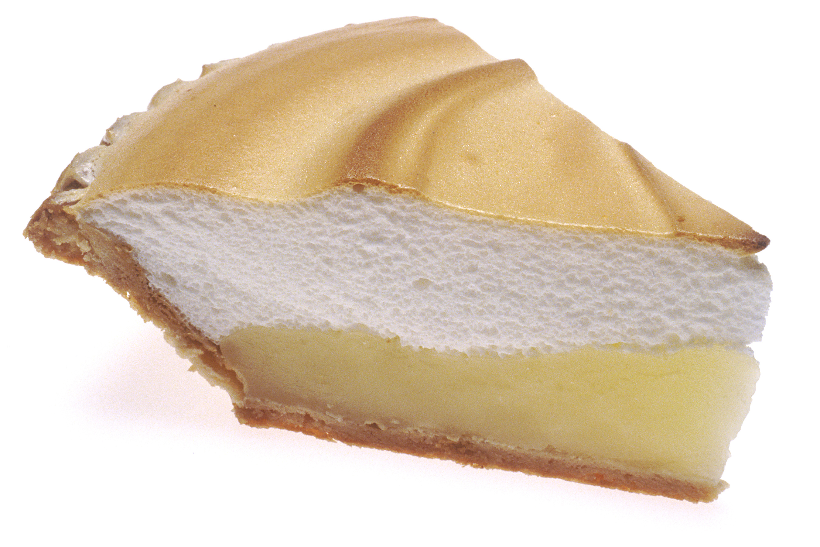 Slice of lemon meringue pie